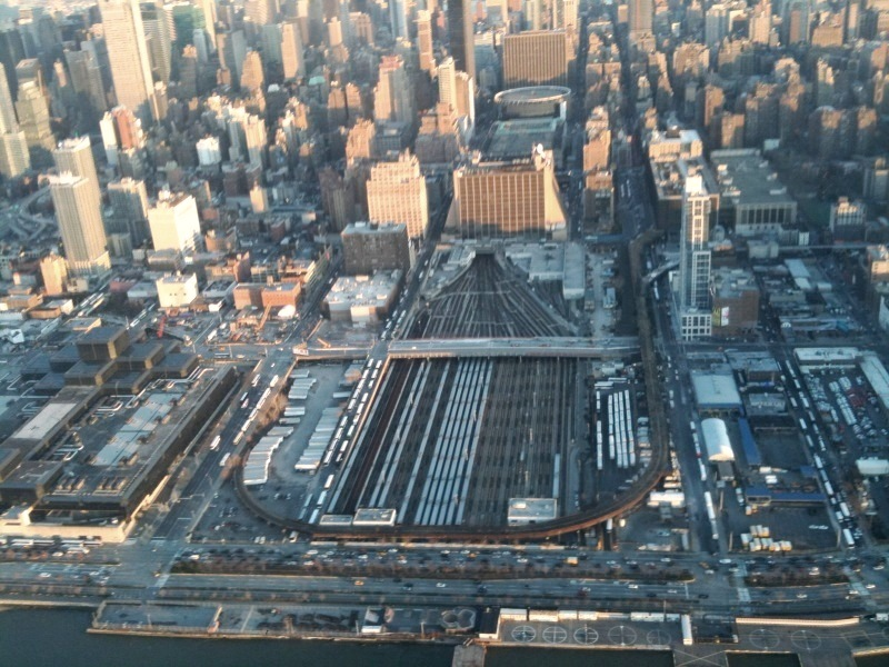 Rail yard west of Penn Station, looking east-southeast, with Madison Square Garden in the background